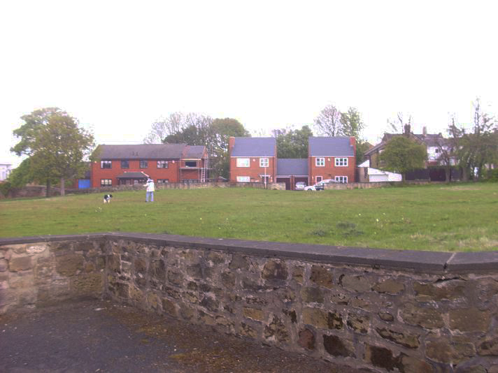 Sour Milk Hill Lane, Sheriff Hill, Gateshead in 2010. This is the former site of sheriff hill lunatic asylum which stood on this site in the ninteenth century.